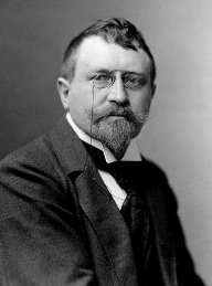 German Artist Curt Herrmann (1854-1929)